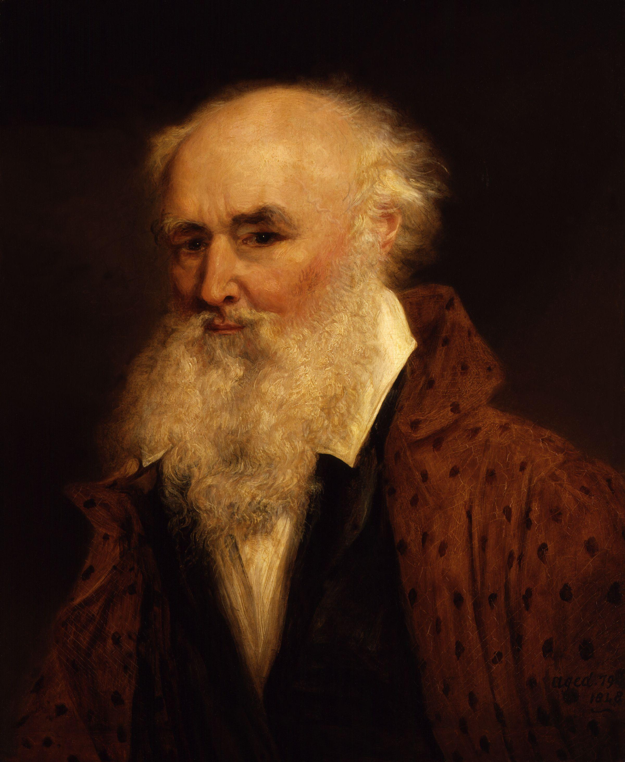 James Ward